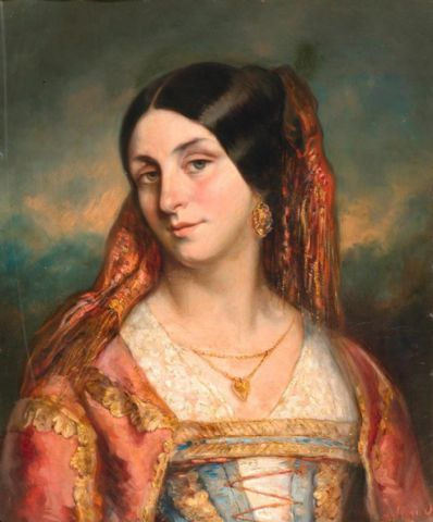 Portrait of a young Italian or Spanish woman, by Paul Léon Aclocque (1834-1893)